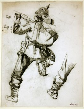 This work from Otto of Faber du Faur is privately owned